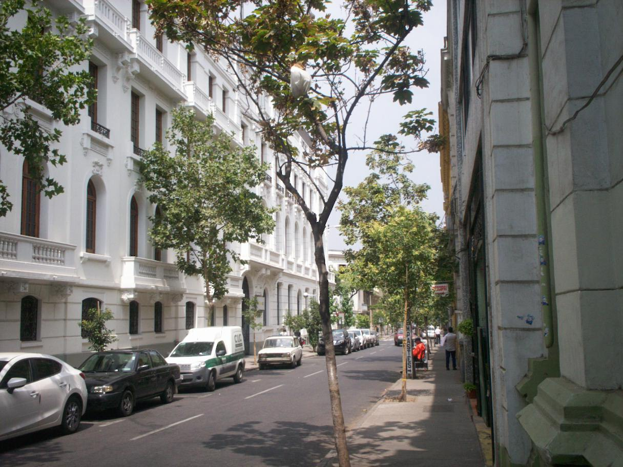 Street in Santiago de Chile